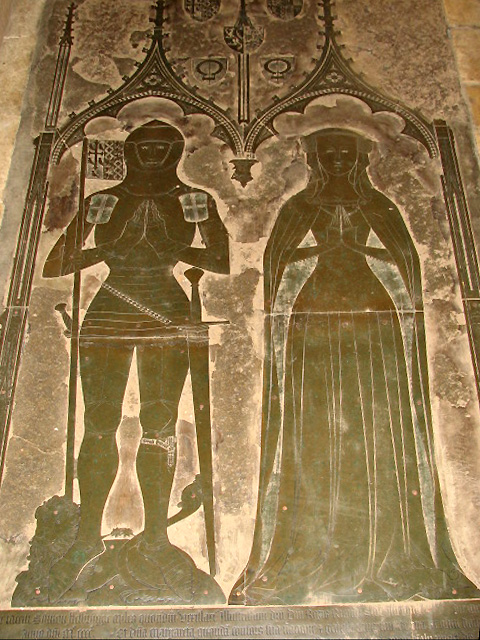 Brasses of Simon de Felbrigge, lord of the manor of Felbrigg, Norfolk, and his wife Margaret, in St Margaret's Church, Felbrigg, Norfolk.